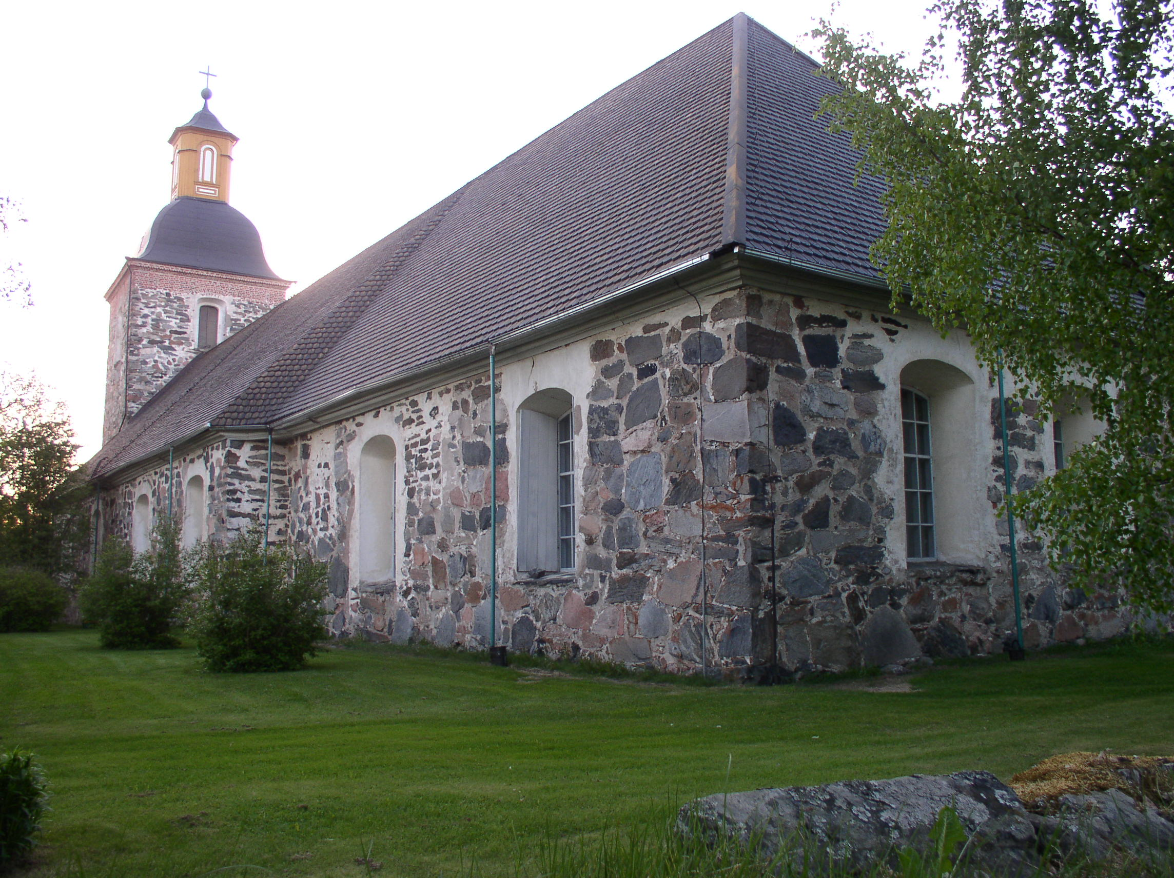 Tammela church in Tammela, Finland. The eastern part of the church was build c. 1530-1550 (narrow part in the foreground), western part and the tower in 1780s (completed in 1785).